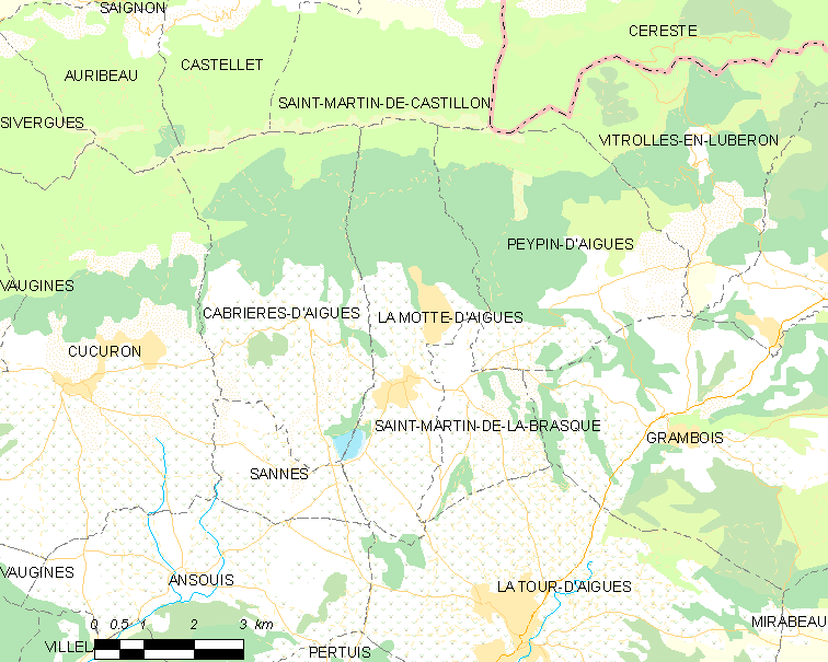 Map of French municipality La Motte-d'Aigues